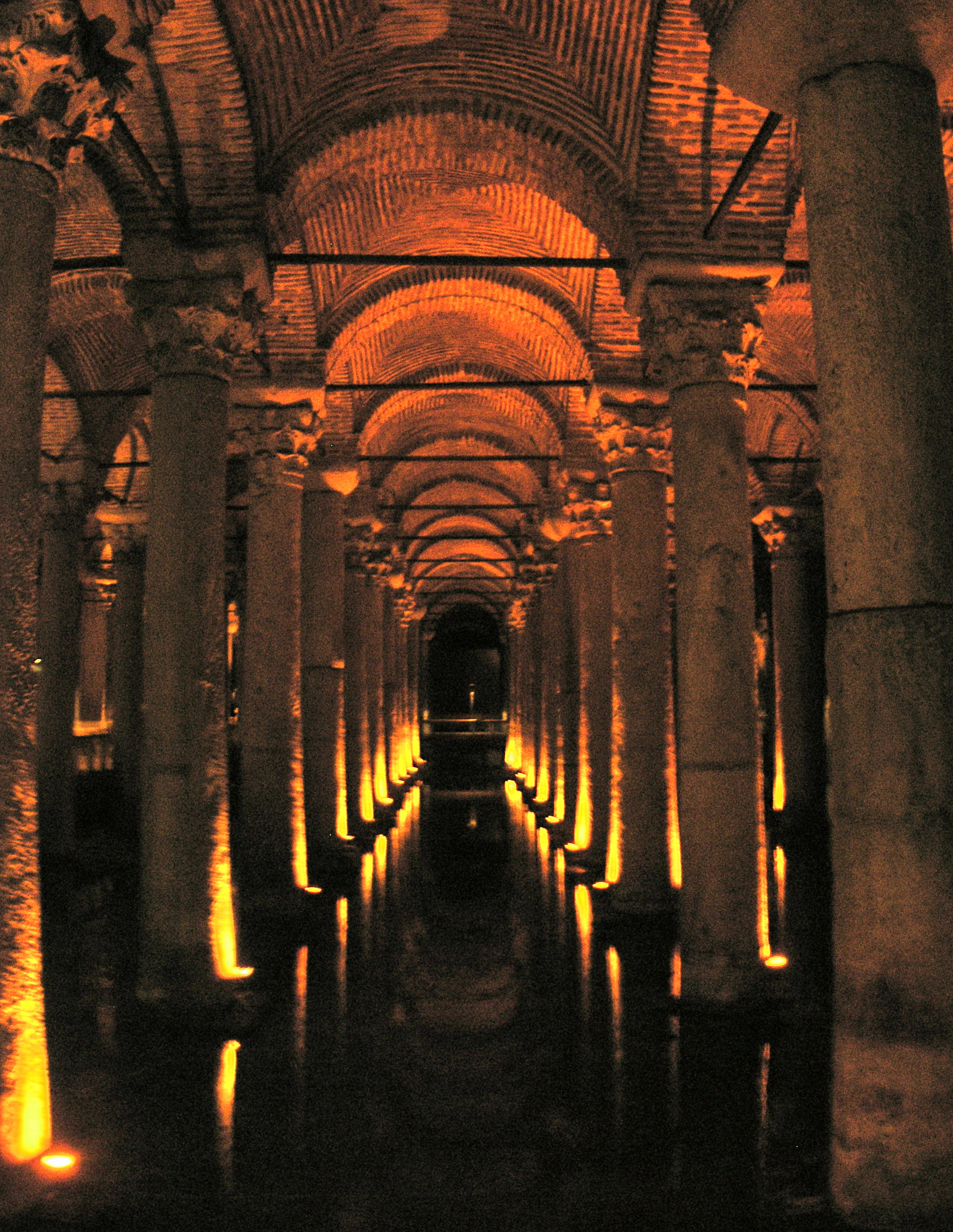 View of the Basilica Cistern, constructed under Emperor Justinian I, today in Istanbul.